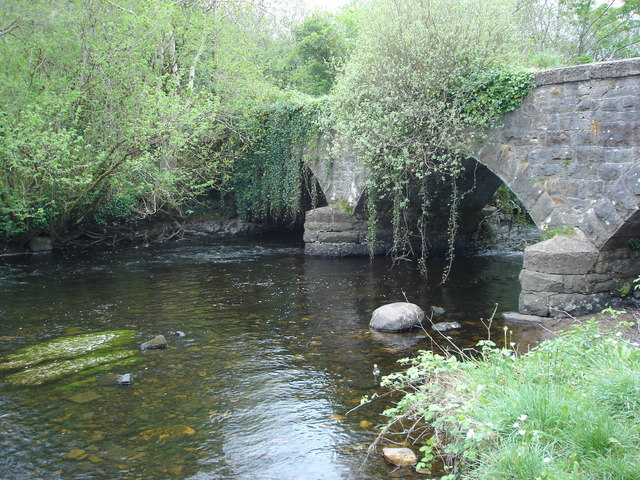 Old bridge over the River Eske This beautiful old bridge once supported the County Donegal Railway being a narrow-gauge railway over the River Eske.